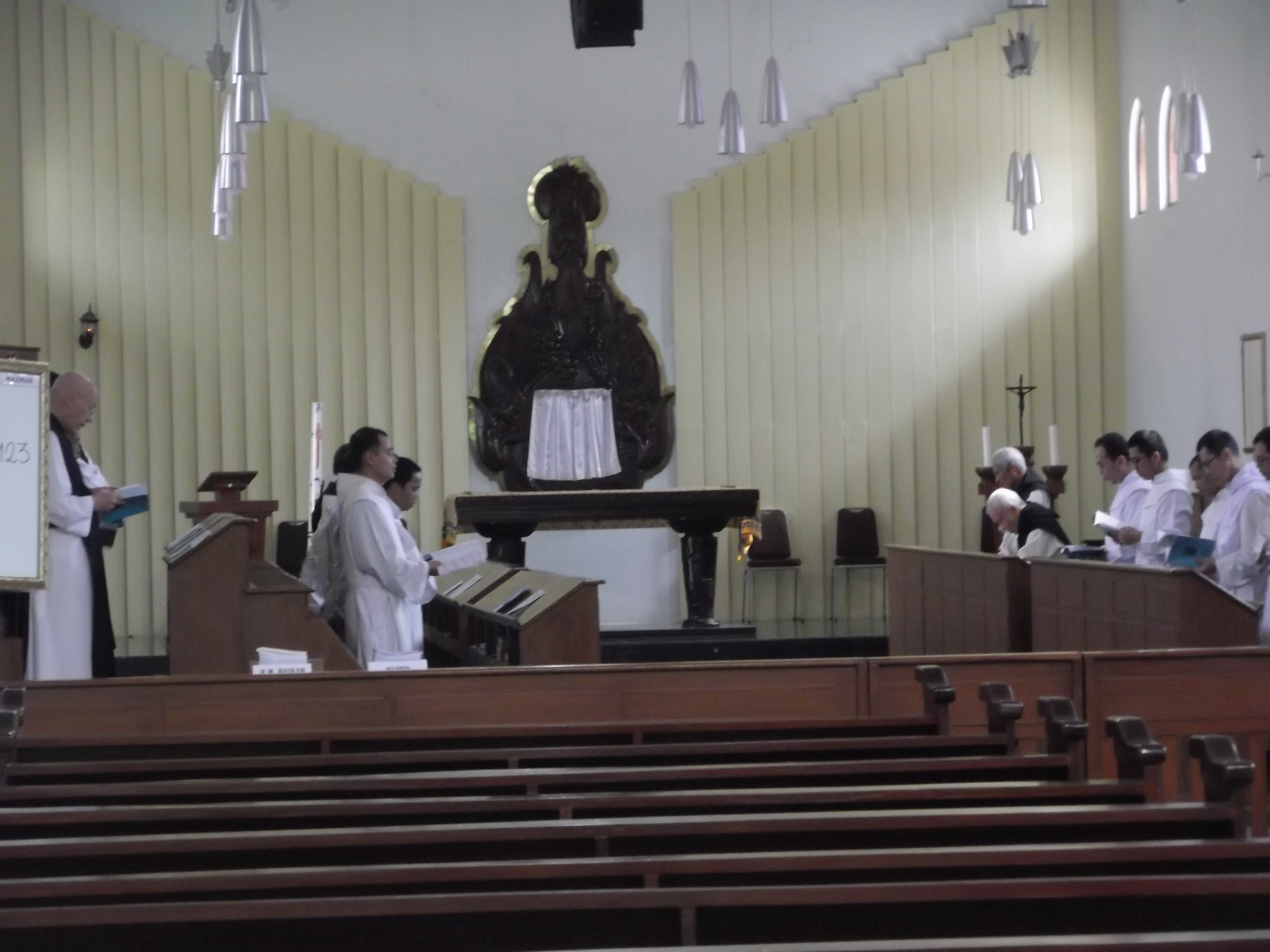 Trappist monks are celebrating Terce in the Church of the Monastery of Saint Mary Rawaseneng, Temanggung, Indonesia. A councilor of the Abbot General, Dom David Lavich, OCSO, is standing on the leftmost.